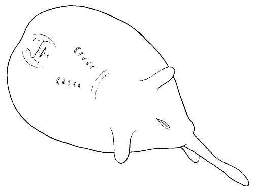 Ventral view of Typhlonarke tarakea (misidentified as T. aysoni in original work)